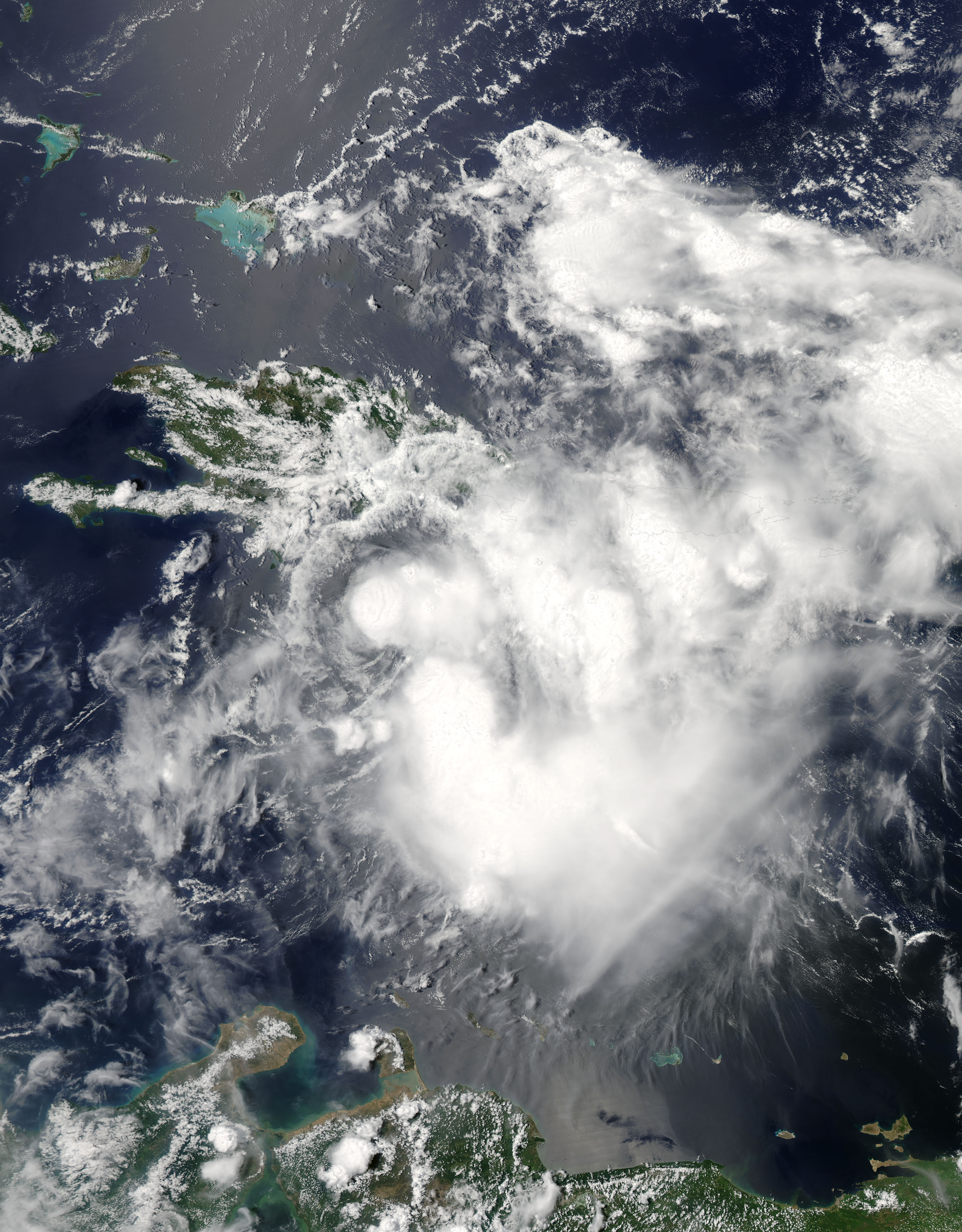 Tropical Storm Emily on August 3, 2011